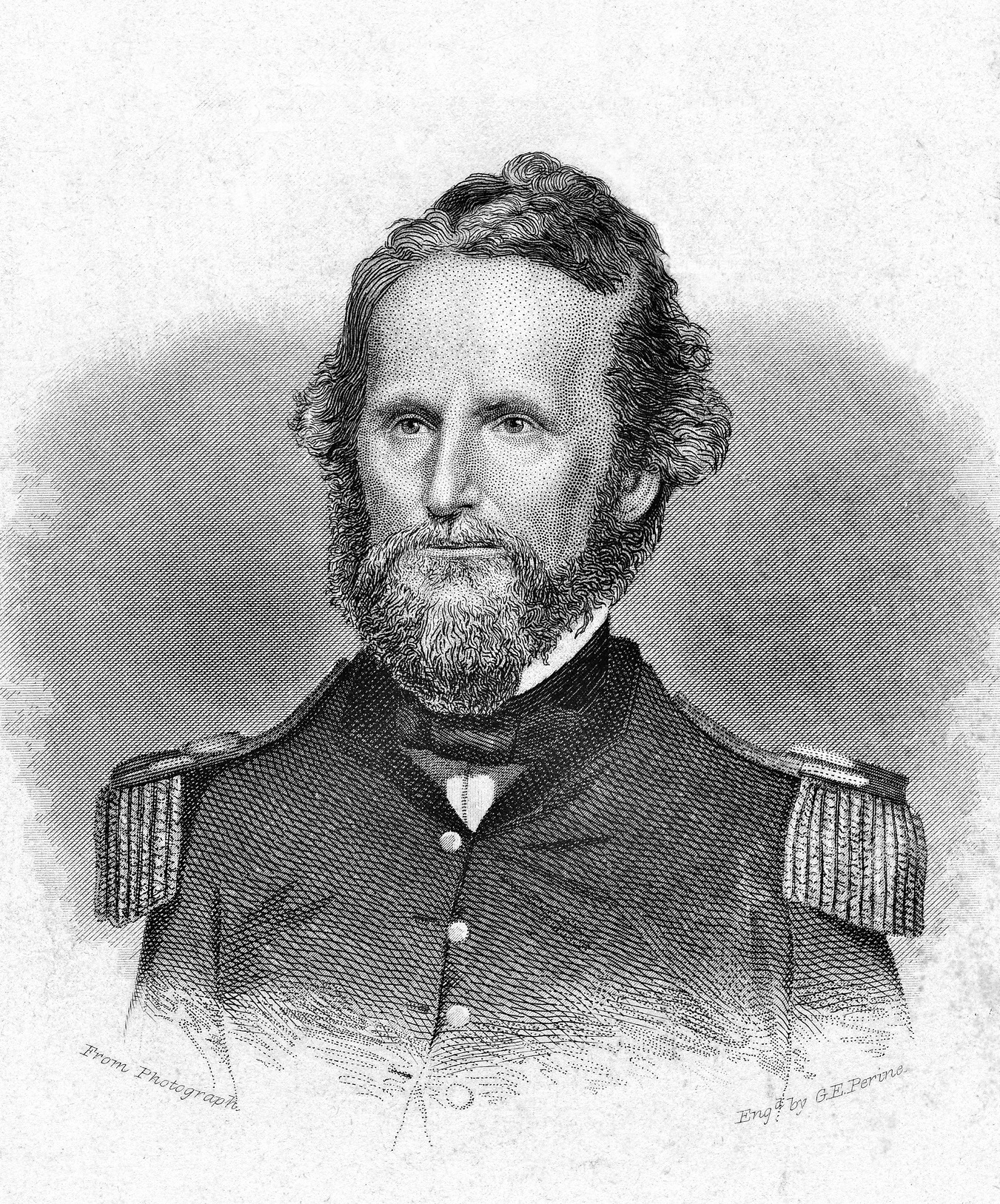 "Capt. Nathl. Lyon, U.S.A." (Nathaniel Lyon). Steel Engraving by G.E. Perine, 1861-1865. Missouri History Museum Photograph and Prints collection. Civil War. P0084-0872. (image has been cropped amd cleaned in this version)